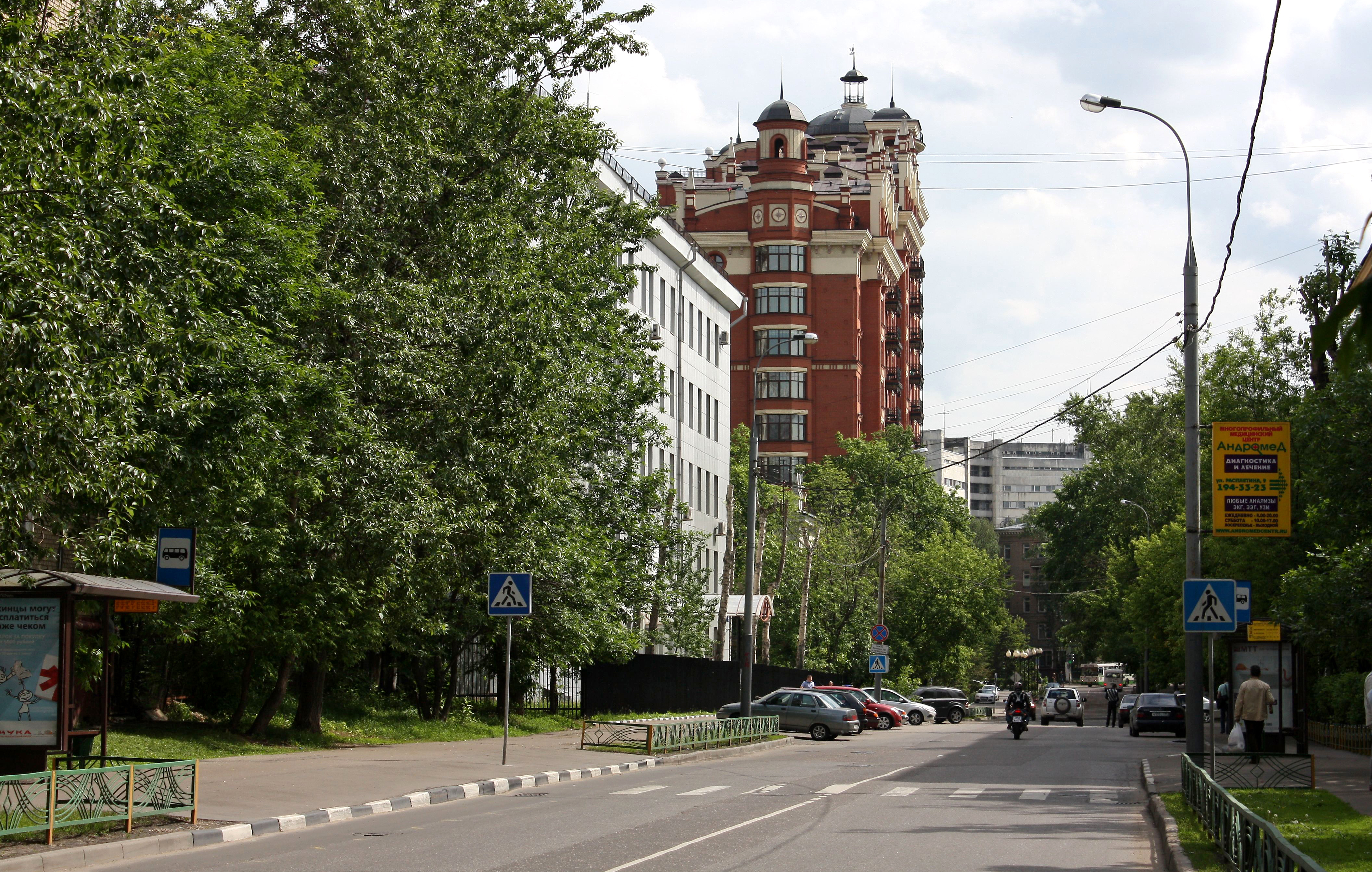 Moscow, Raspletina street. A view towards Marshal Sokolovsky street